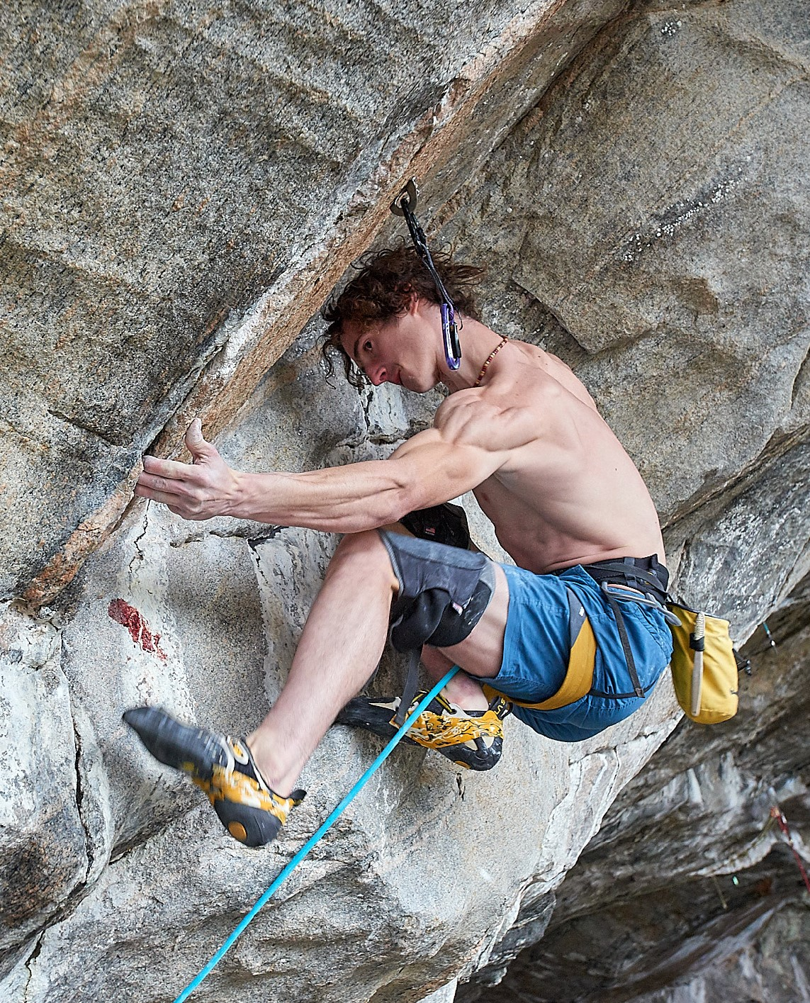 Adam Ondra climbing Silence, 9c, Norway 2017 - cropped image